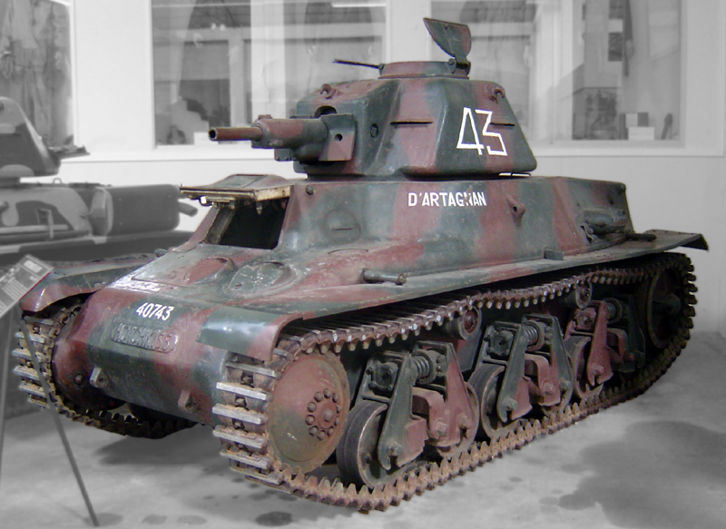 Hotchkiss H39 on display at the Musée des Blindés in Saumur. The picture taken August 8, 2006.